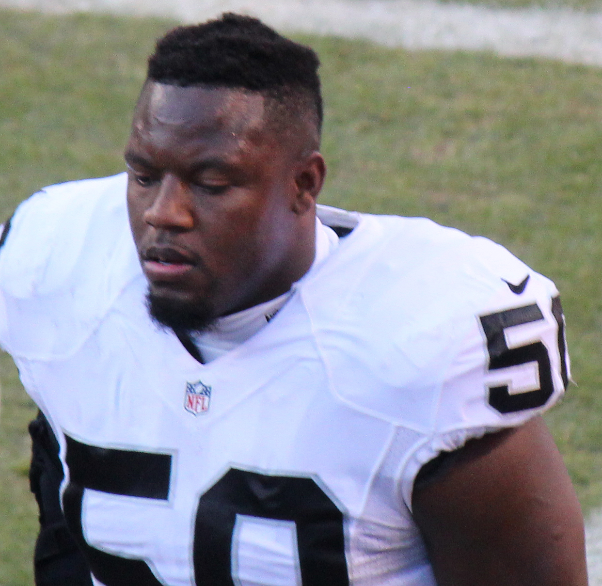 Curtis Lofton, a player on the National Football League.